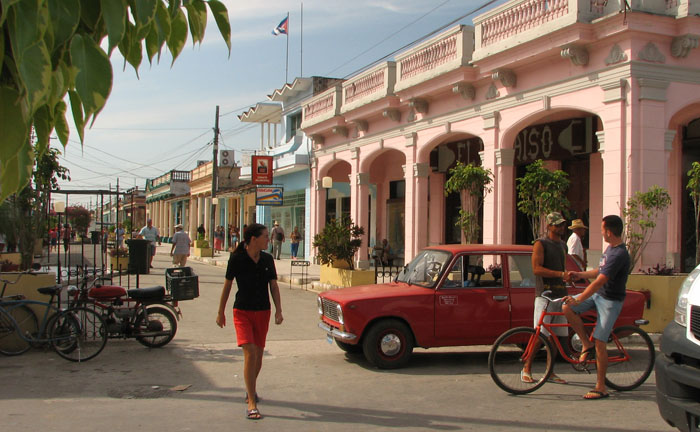 my own